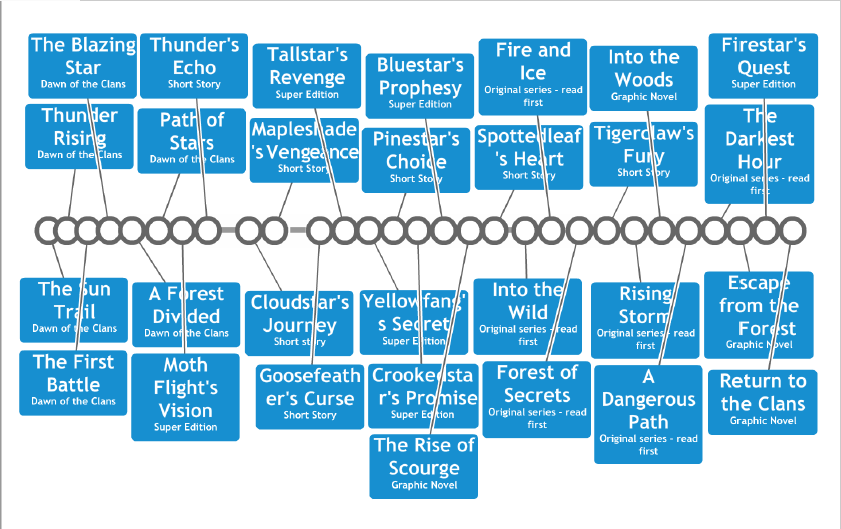 First Timeline for Warriors Series, spanning from Dawn of the Clans to after Firestar's Quest